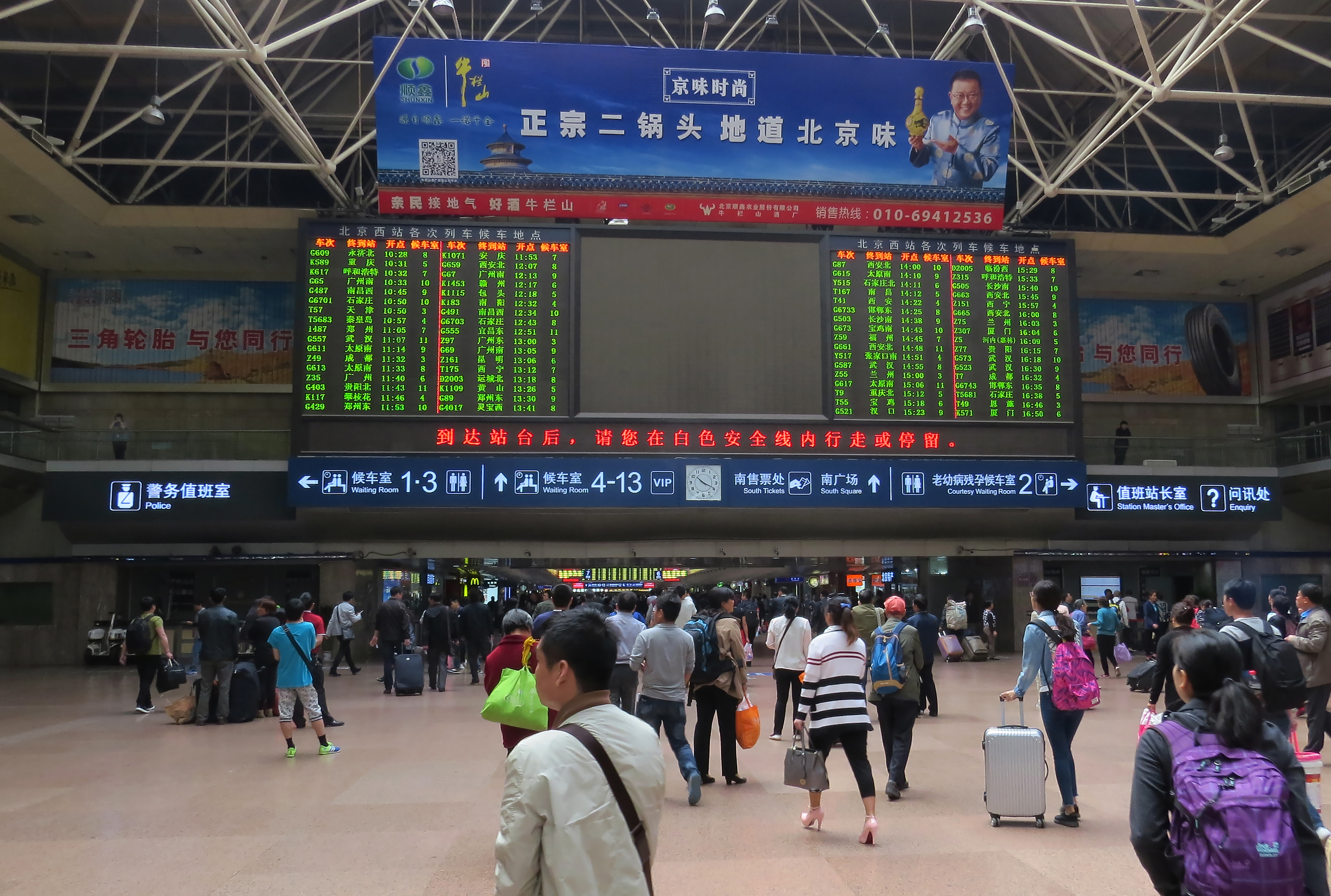 Note the destination of Z5: Hanoi (Gia Lam)!